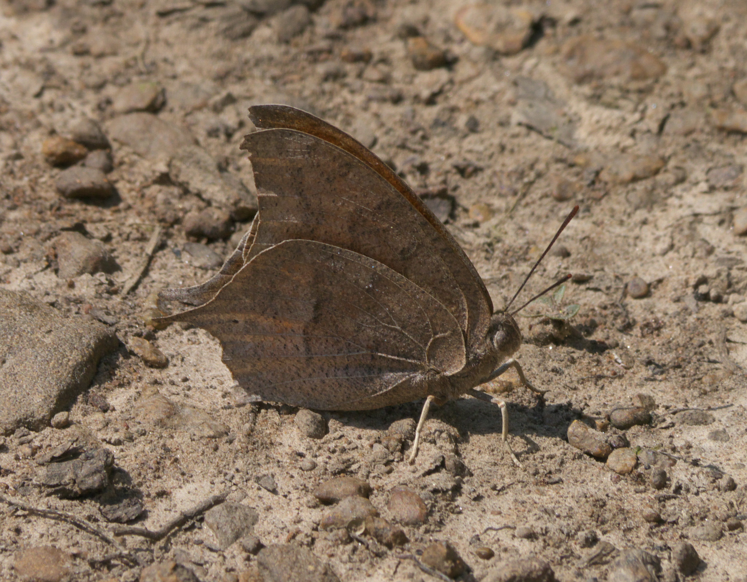 Anaea andria, Goatweed Leafwing - Hodges #4554, ID Confidence: 87